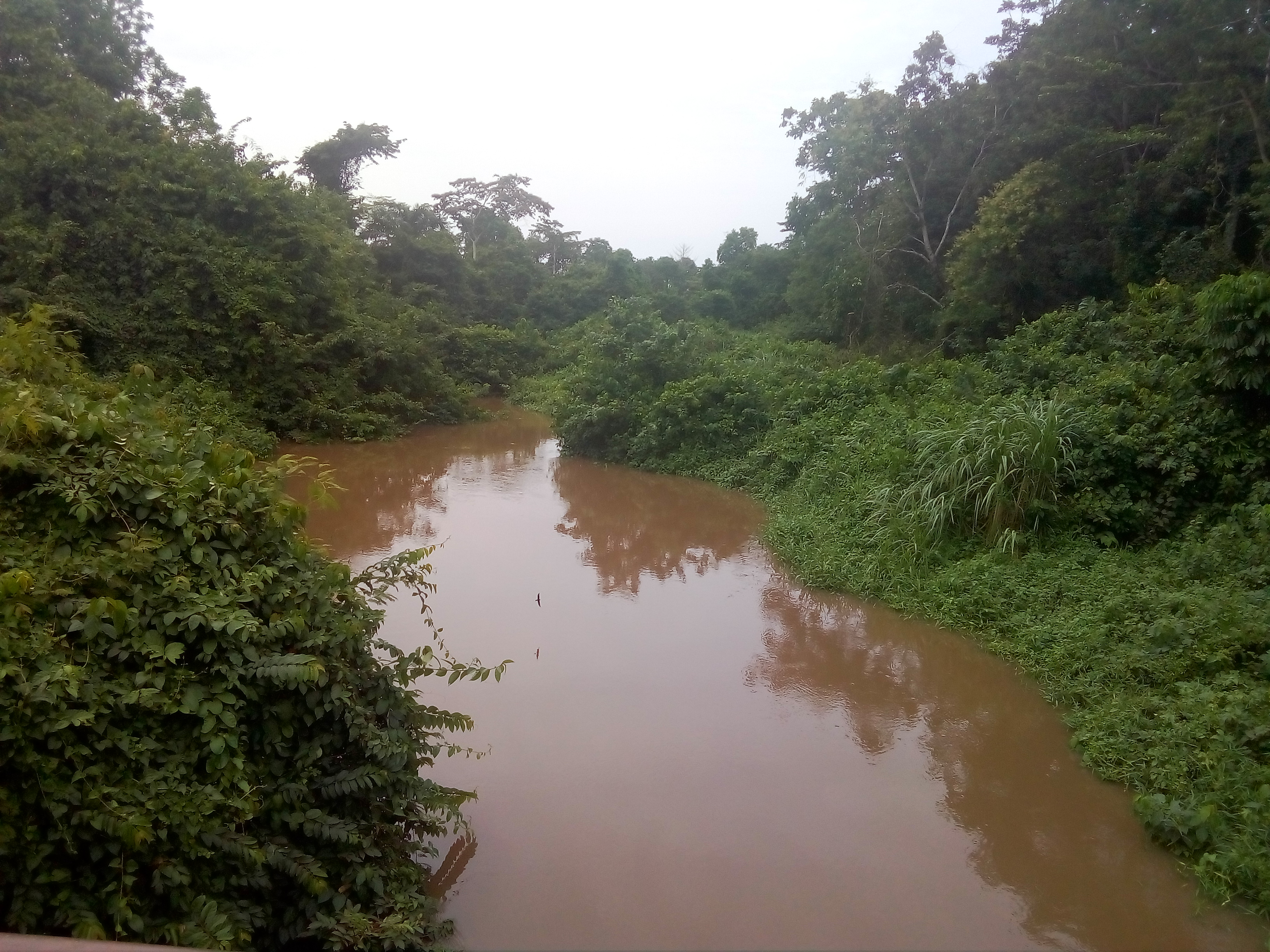 The river and its allied flora, aquatic and fauna diversities have been preserved because of the tradition that the place is the sacred grounds of the TAAKORA deity who is the overload of the Techiman people in the Brong Ahafo Region of Ghana.